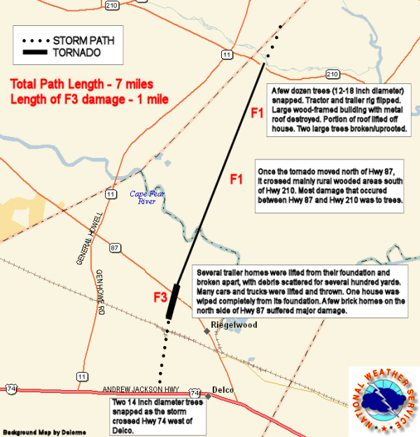 Track of the Riegelwood, North Carolina tornado that occurred on November 16, 2006.